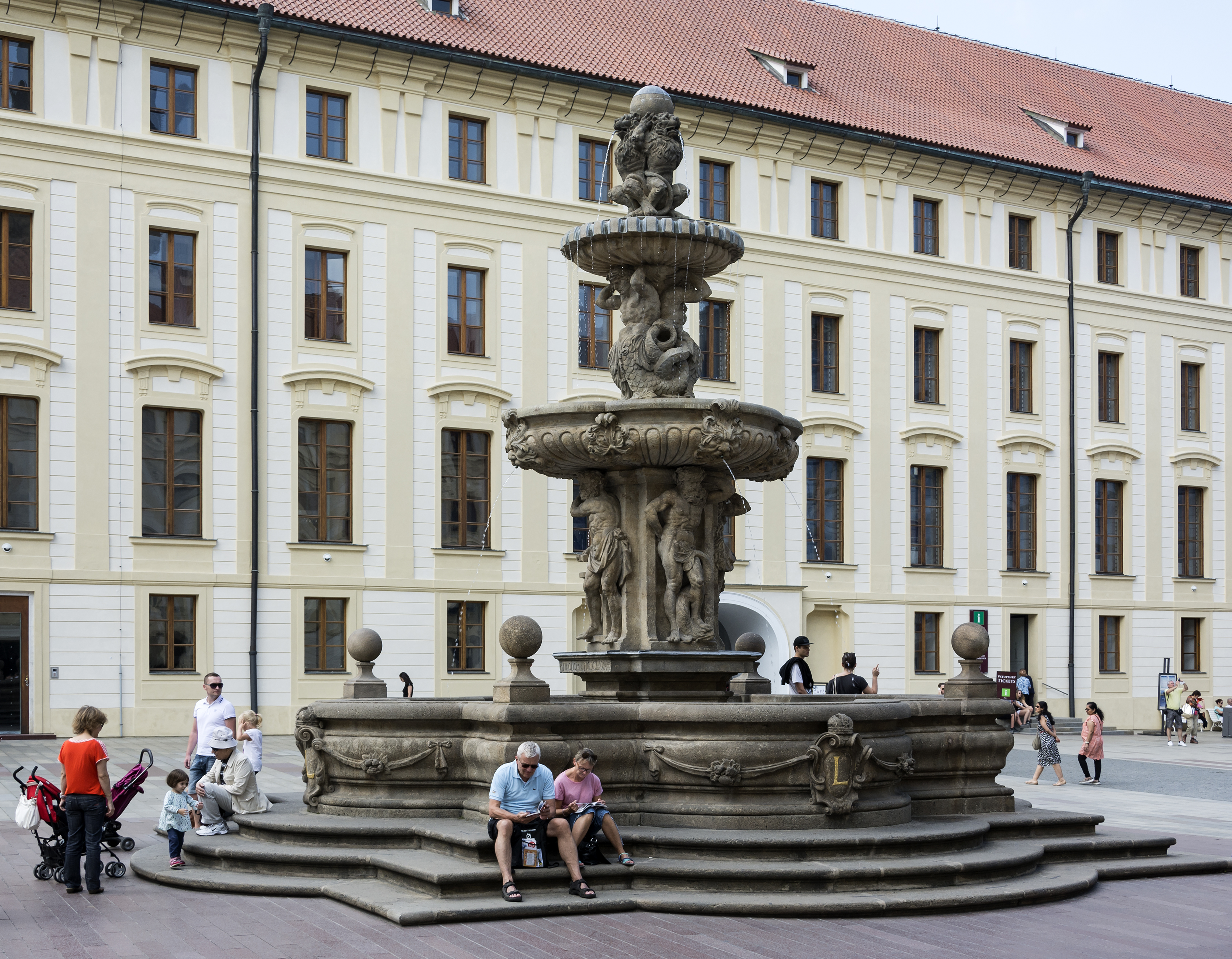 Kohl's Fountain in Prague